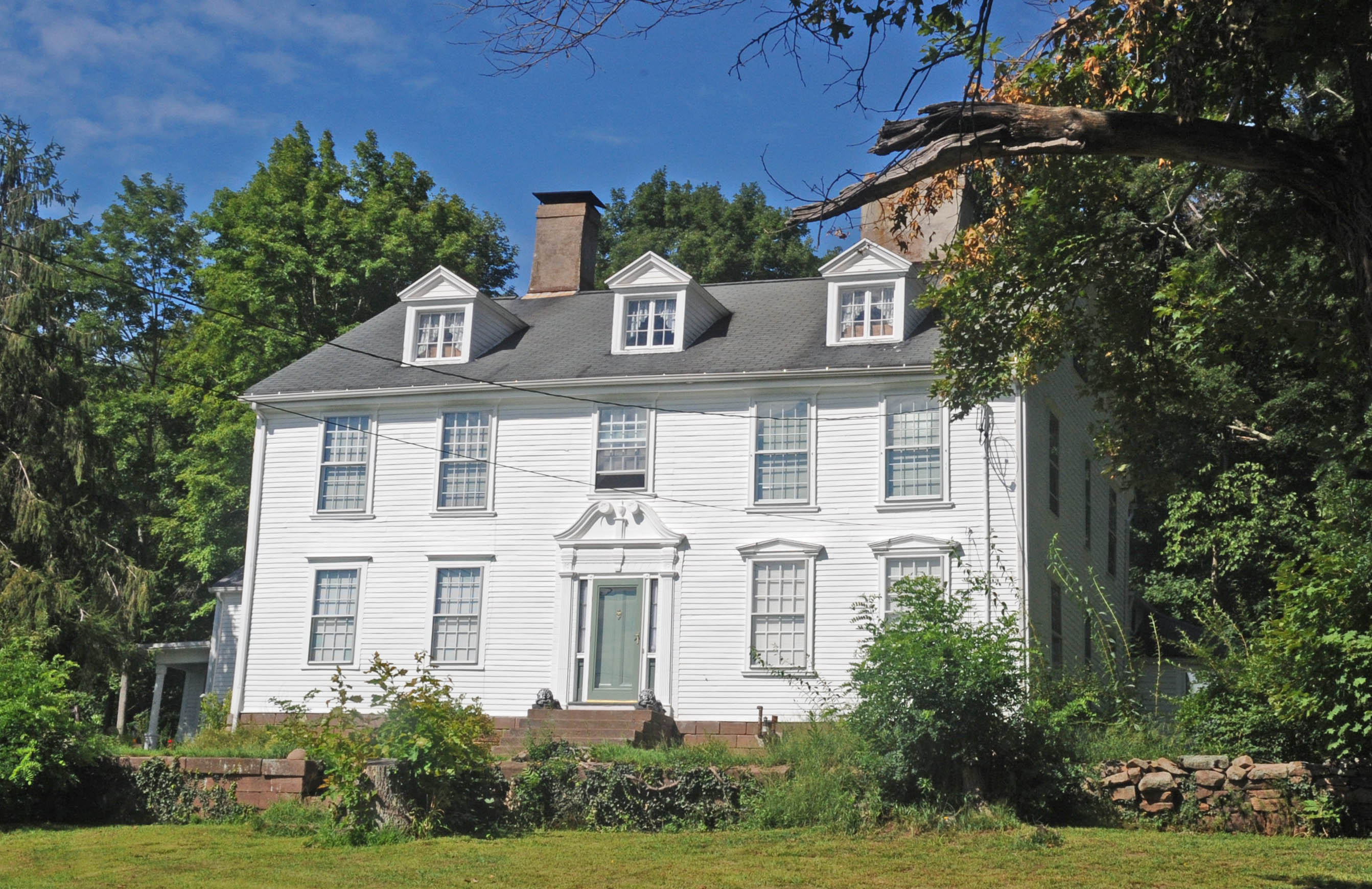 Colonial Georgian-style 1746 house built by Judge Seth Wetmore. Intersection of Connecticut Route 66 and Camp Road. Johnathan Edwards, Aaron Burr, and Lafayette were visitors here.